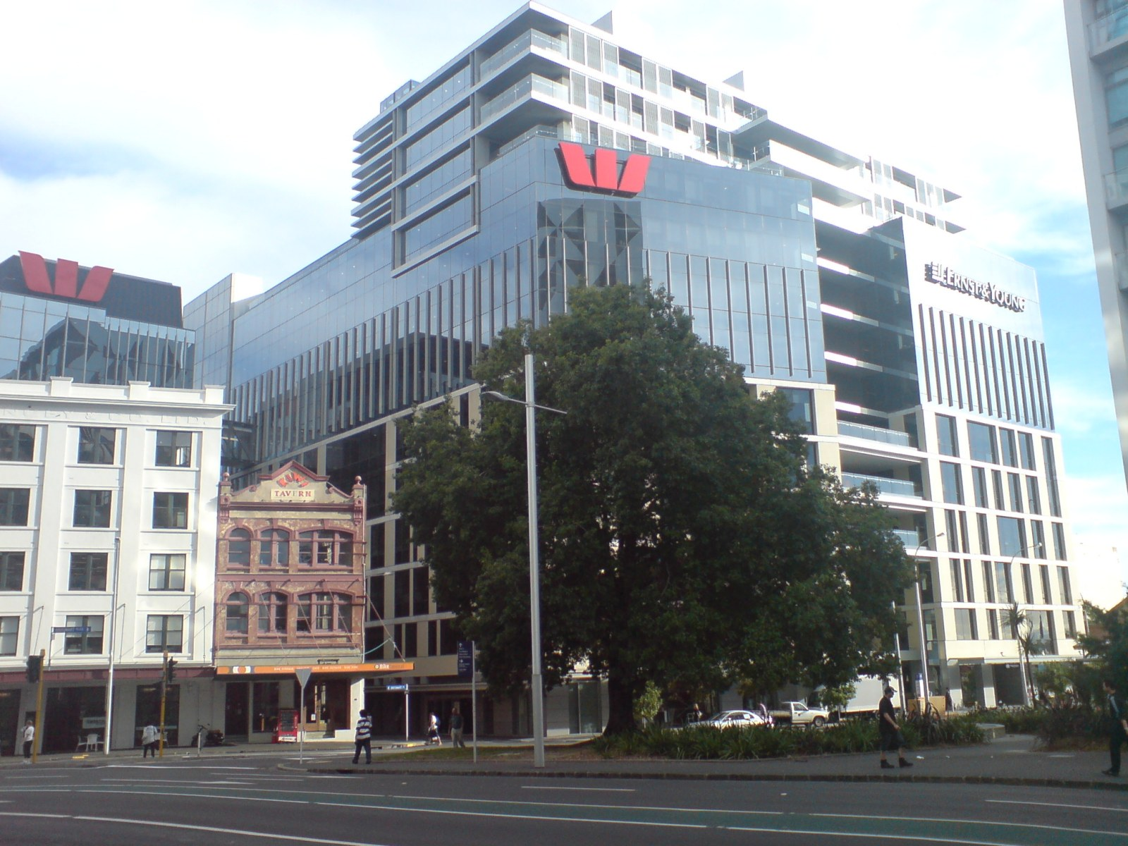 The new Westpac Building at the eastern end of the Britomart area in Auckland, New Zealand. Looking northwest.